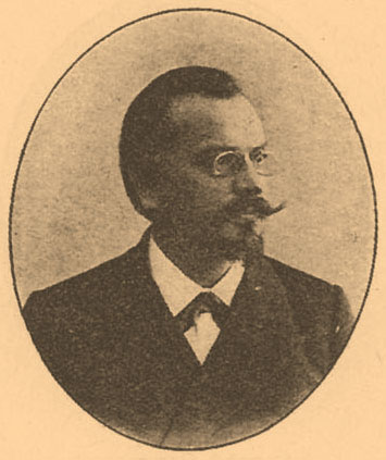 Illustration from Brockhaus and Efron Encyclopedic Dictionary (1890—1907)